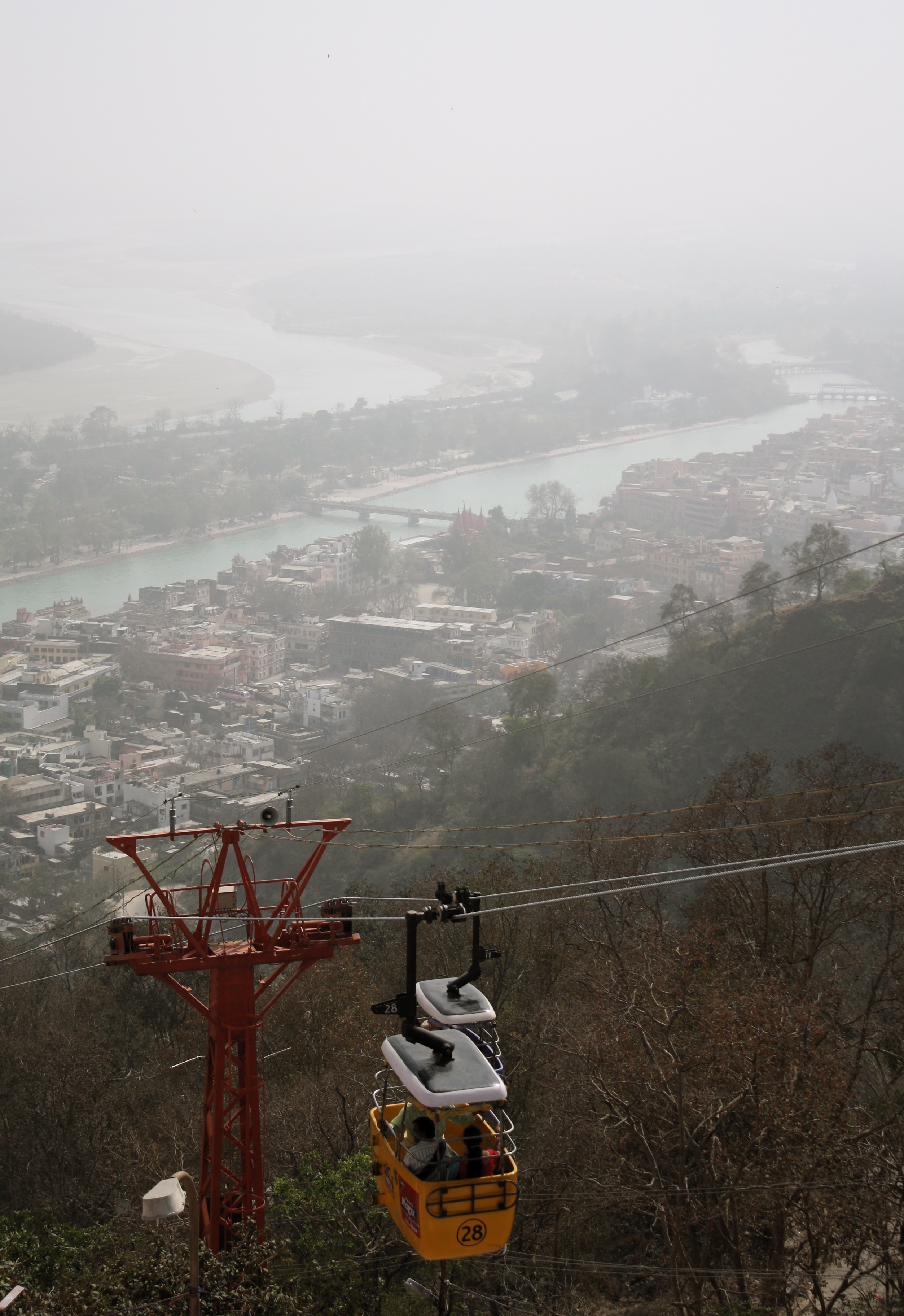 The cable car up to the Mansa Devi temple